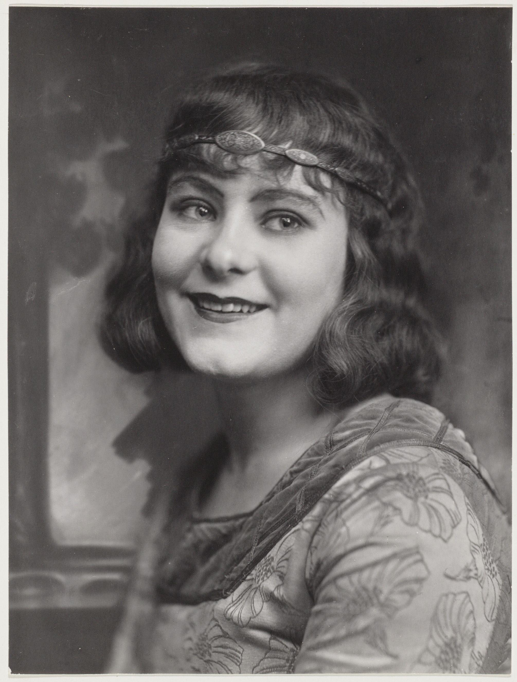 Photograph of Sara Heyblom (1892-1990) by Jacob Merkelbach (1877-1942).